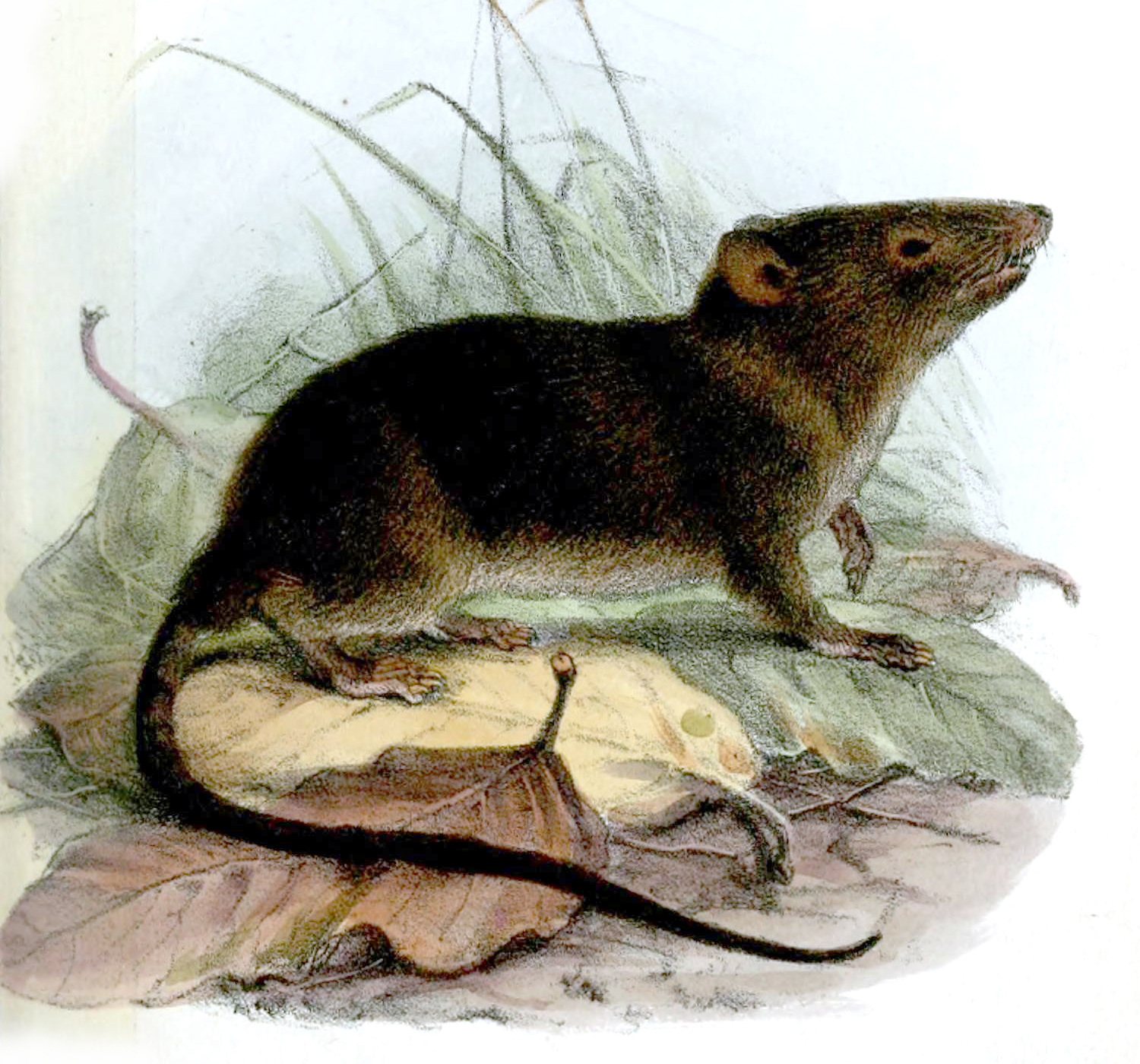 Hyracodon fuliginosus = Caenolestes fuliginosus The original artwork has been cropped by the uploader